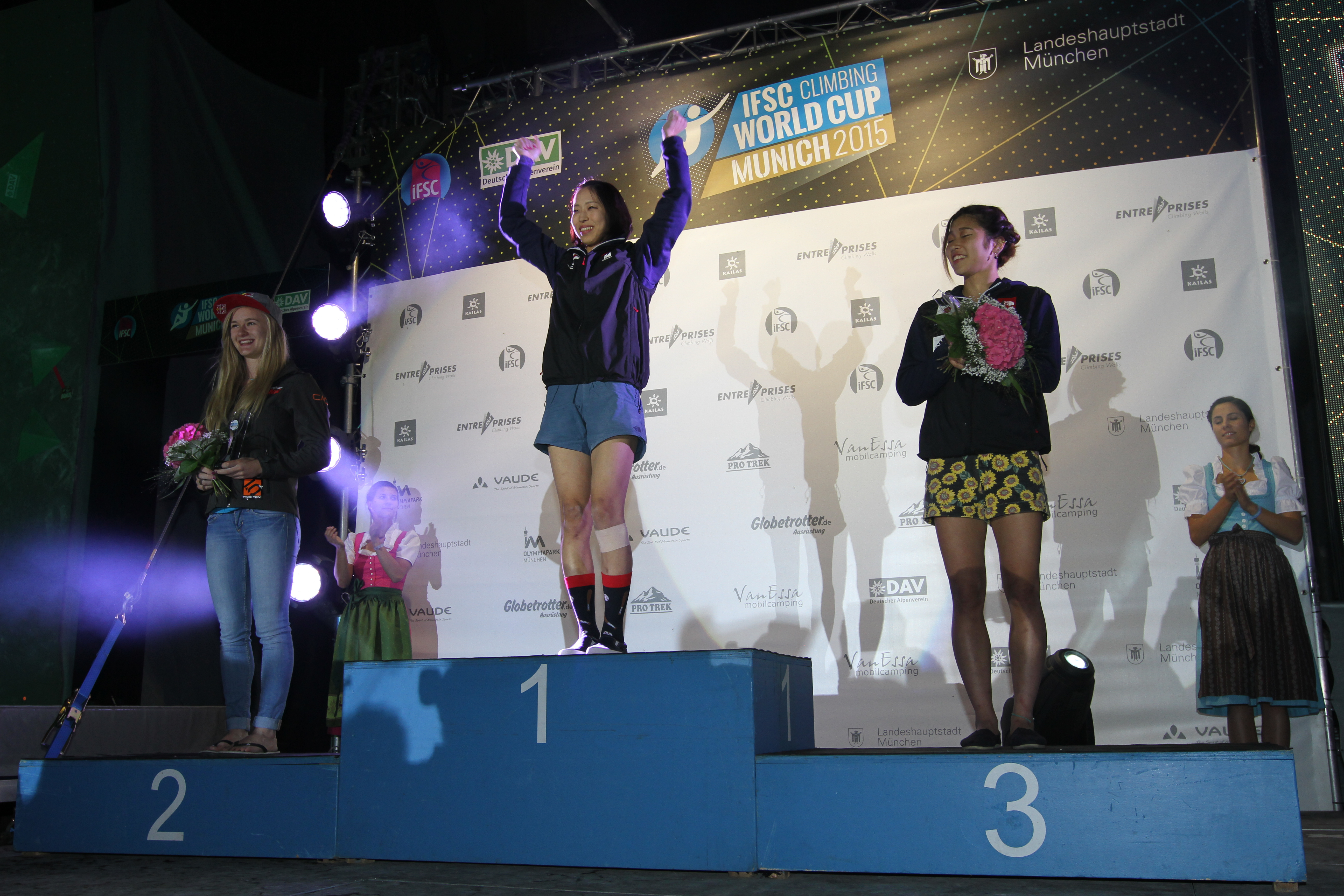 IFSC Boulder Worldcup, Munich 2015. Winners of the women's saison: 1: Noguchi, Akiyo (JAP), 2: Coxsey, Shauna (GBR), 3: Nonaka, Miho (JAP)